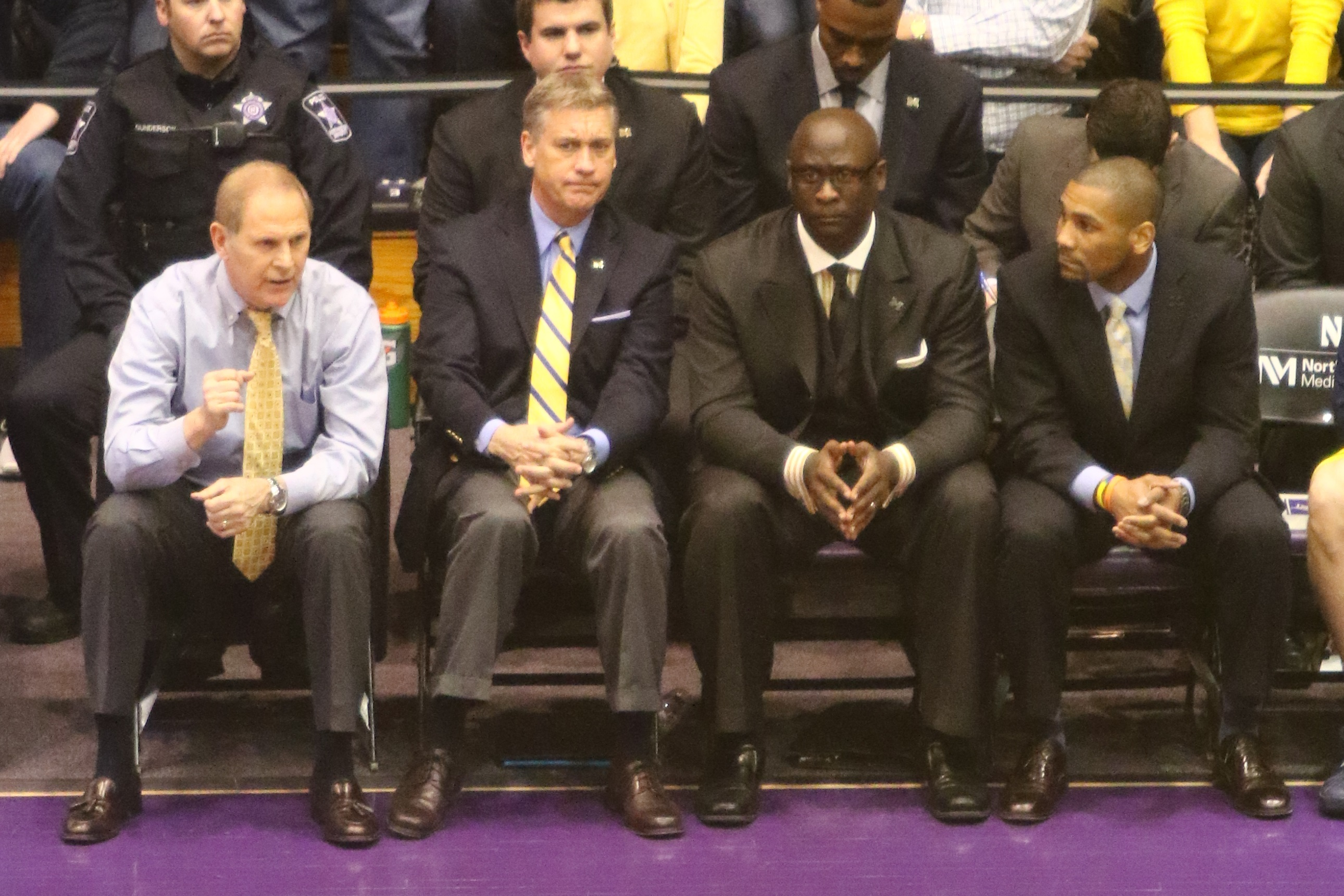 w:2014–15 Michigan Wolverines men's basketball team coaches at Welsh-Ryan Arena. Left to right Head coach John Beilein, Jeff Meyer, Bacari Alexander and LaVall Jordan